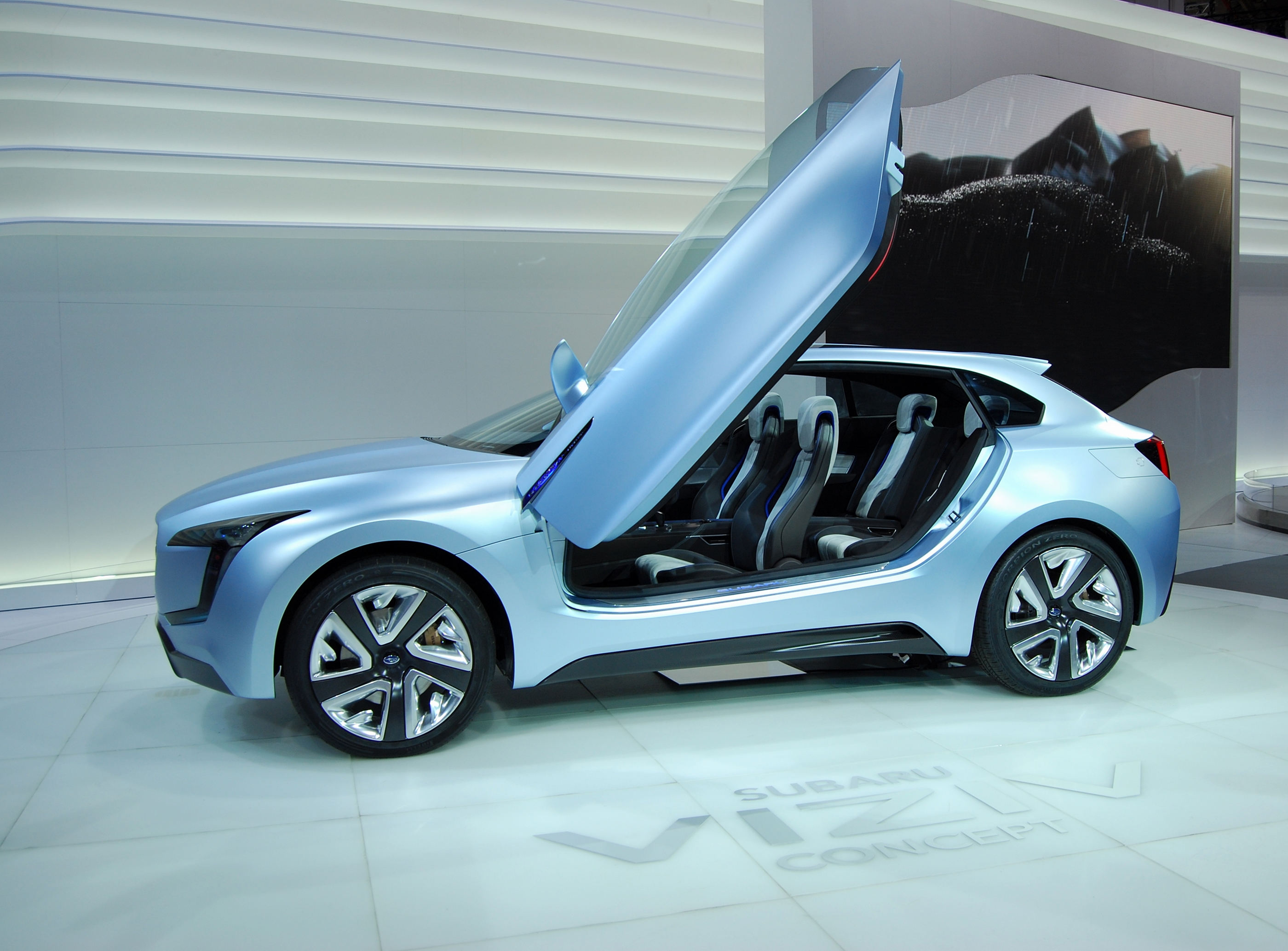 Subaru VIZIV concept car at Frankfurt Motor Show 2013.